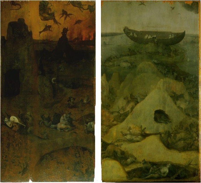 Wings (interior) of a triptych, the central panel of which has probably been lost. See File:Jeroen Bosch De Zondvloed Buitenzijde.jpg for the exterior.